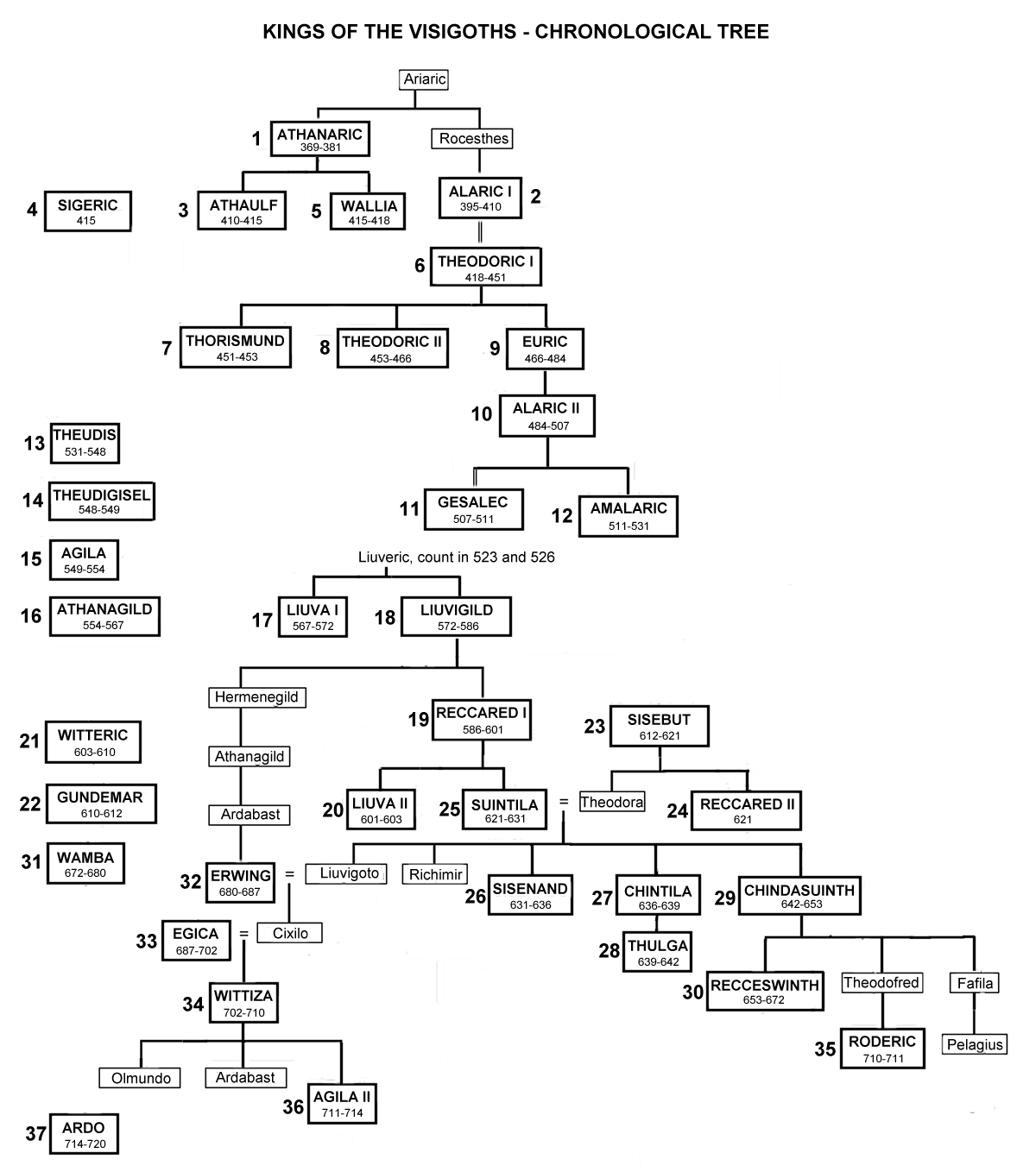 The chronological tree of the Visigoths Kingdom